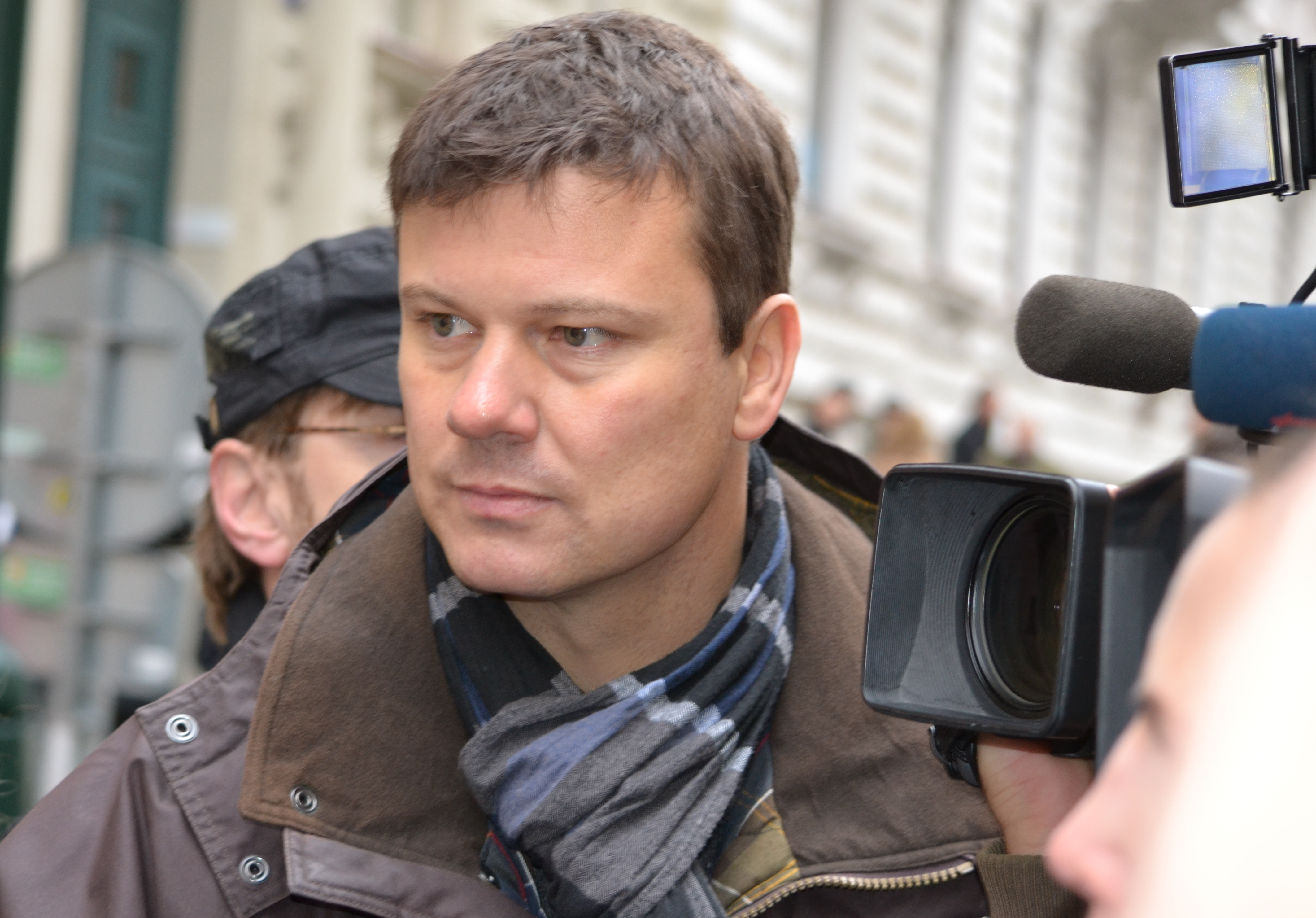 Jan Moláček, Czech TV reporter